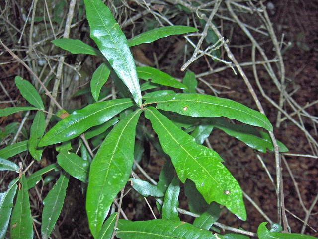 Quercus hemisphaerica in Sun City Center, Florida, USA